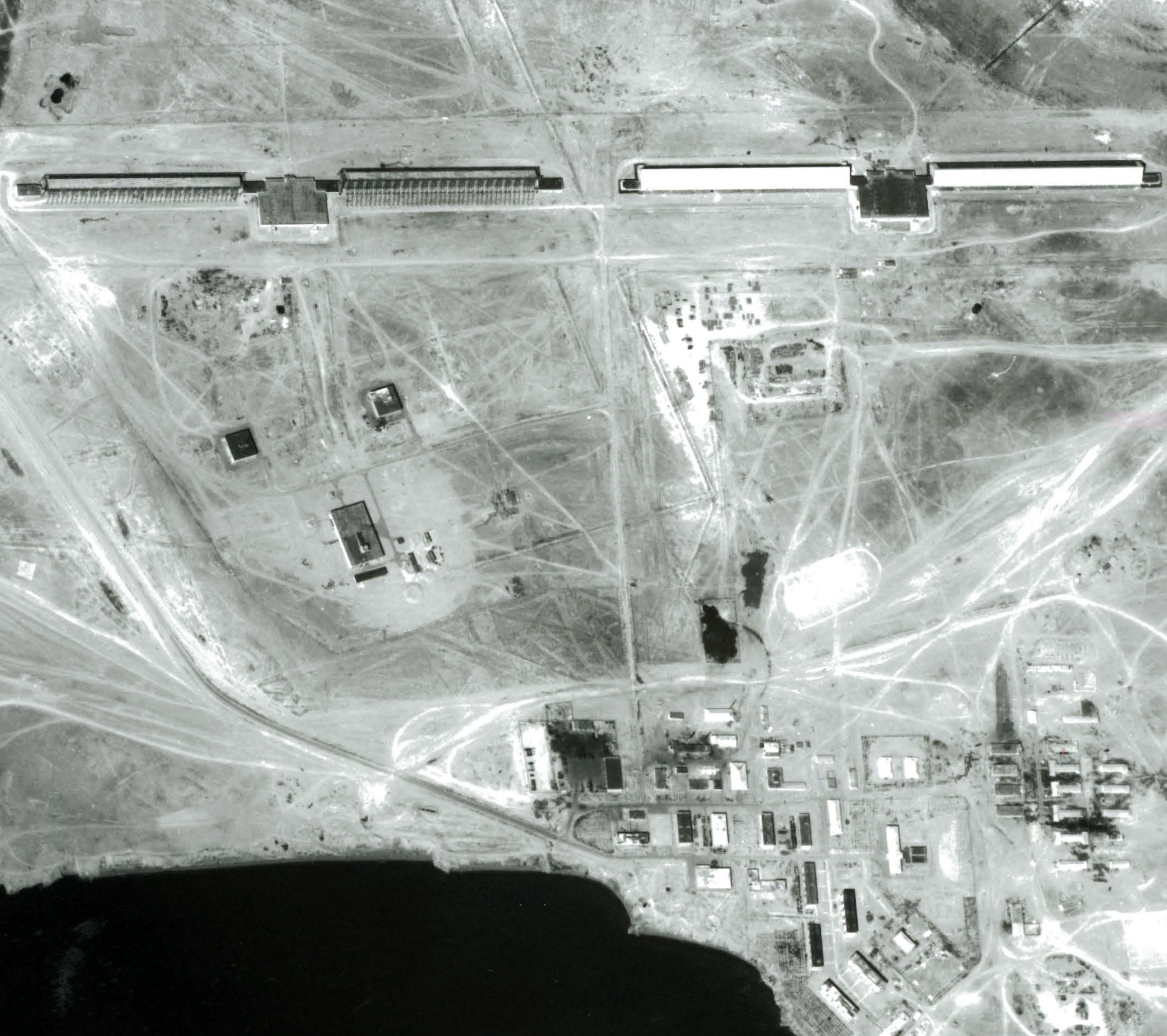 Cropped version of File:Saryshaganspaceradar2.jpg. Two dnestr space surveillance radar at Lake Balkhash, Sary Shagan. May 1967. Taken by US KH-7 GAMBIT satellite.